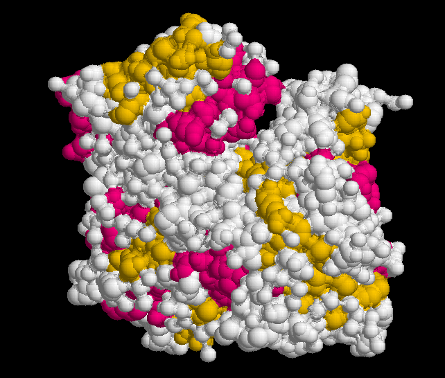 Molecular surface representation of an actin molecule, oriented according to convention. Alpha helycal residues in surface are showed in pink, while beta sheet residues are in yellow. The RasMol image is based on Graceffa & Dominguez Model, 2003